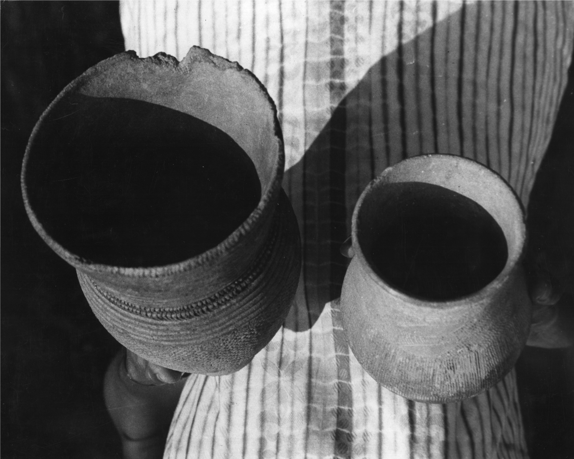 Collections of the Sierra Leone Museum, Freetown. Photo taken in 1968